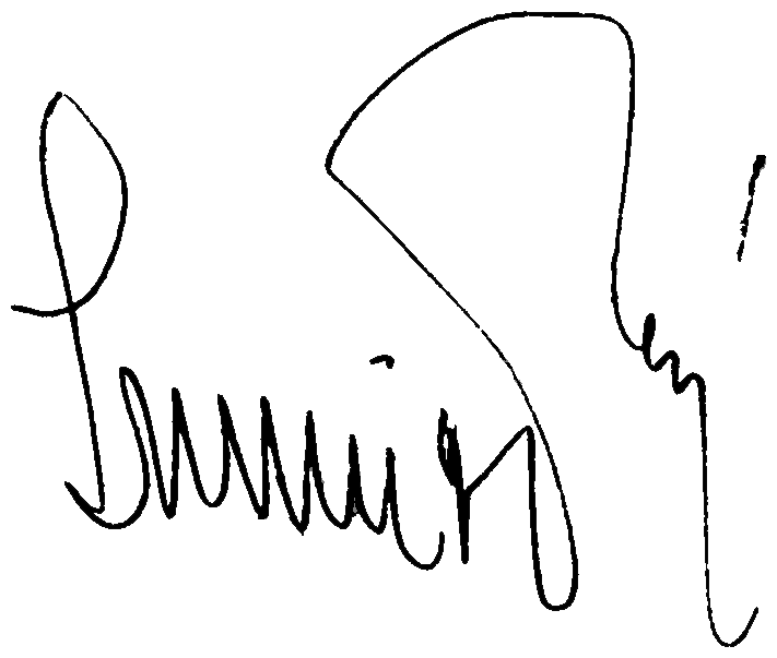 Signature of Pál Schmitt.